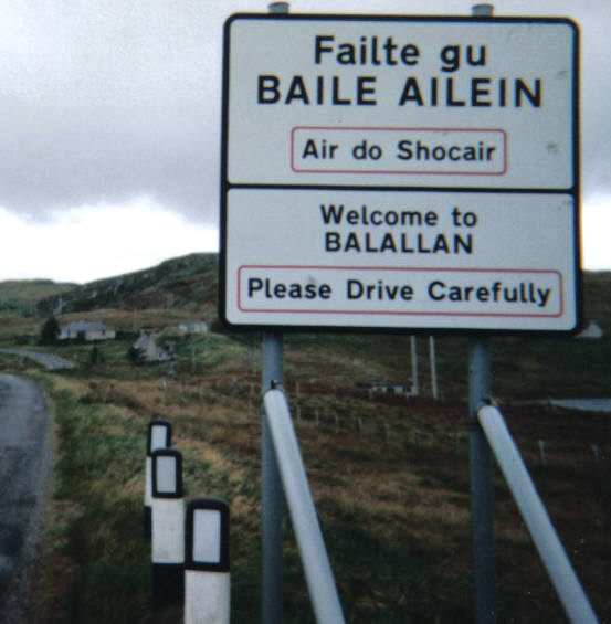 A bilingual roadsign on the edge of Baile Ailein, one of the larger villages in the Outer-Hebridean Isle of Lewis (Leòdhas), located at the beginning of Loch Erisort.